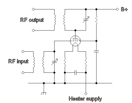 A simple tuned grid RF tetrode amp stage, not that things like decoupling and neutralization are not shown in this drawing